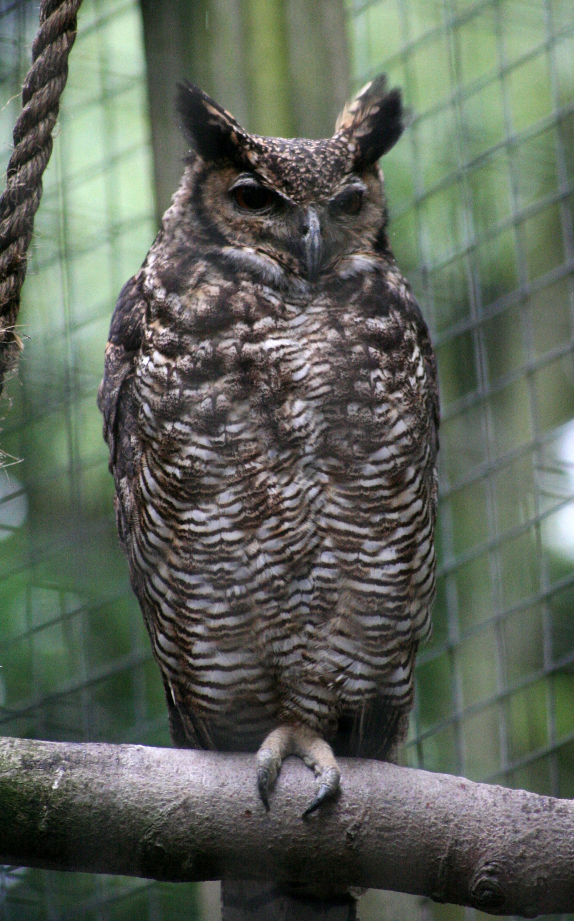 South American Great Horned Owl (Bubo virginianus nacurutu), at the New Forest Otter, Owl and Wildlife Park (Hampshire, England).